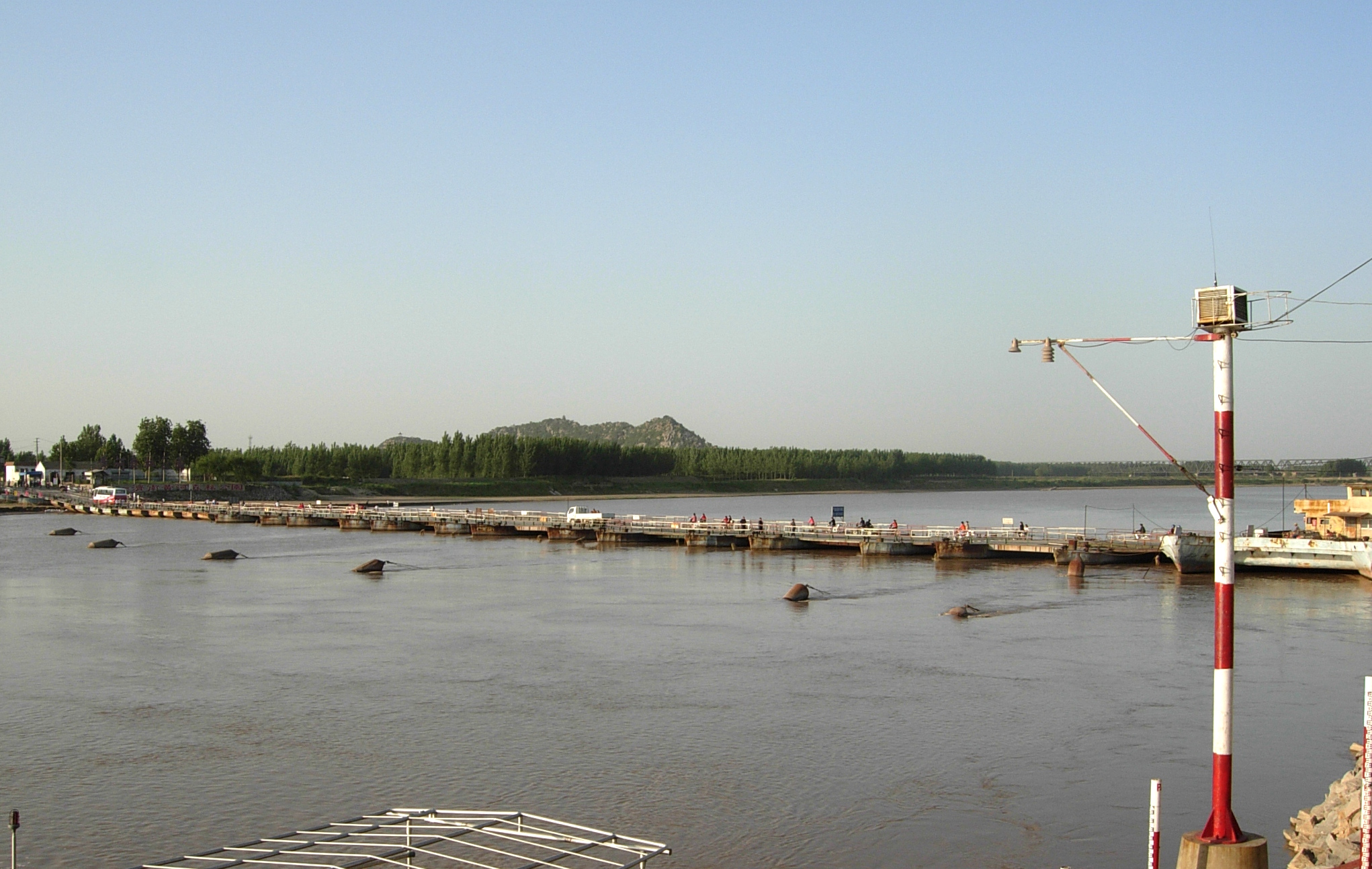 Photograph of a Pontoon bridge (Loukou pontoon bridge, 洛口浮桥, Luòkŏu Fúqiáo) across the Yellow River in Jinan, Shandong, China. Que Hill can be seen in the background.